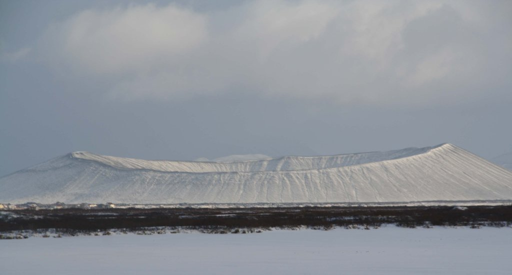 This volcano is over 1 mile across, and looks simply spectacular covered in snow. Not far from Lake Myvatn, in Iceland's far north.